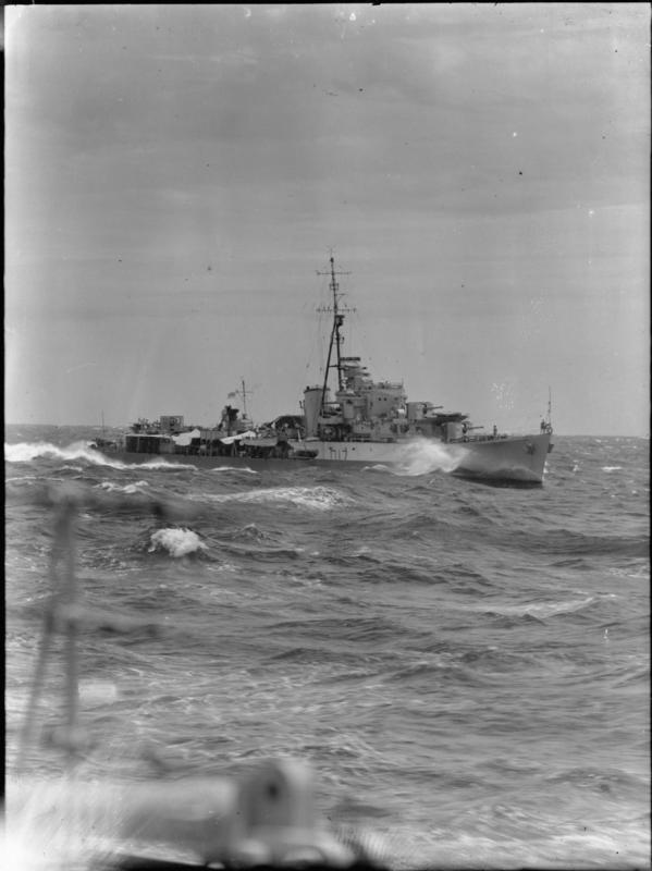 The British Pacific Fleet 1944-1945 HMS QUADRANT underway in choppy seas. The ship originally operated under the pennant number G11, but was transferred to the British Pacific Fleet in 1945. As such she, like other destroyers, changed her pennant number to one under the D flag (in this case D17) to bring them in line with the style of the United States Navy.